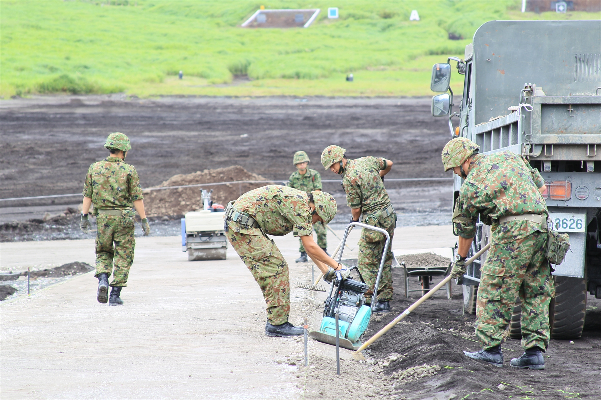 Title FS-1 (総合火力演習準備)_R.JPG Album 富士総合火力演習・そうかえん 会場準備の状況